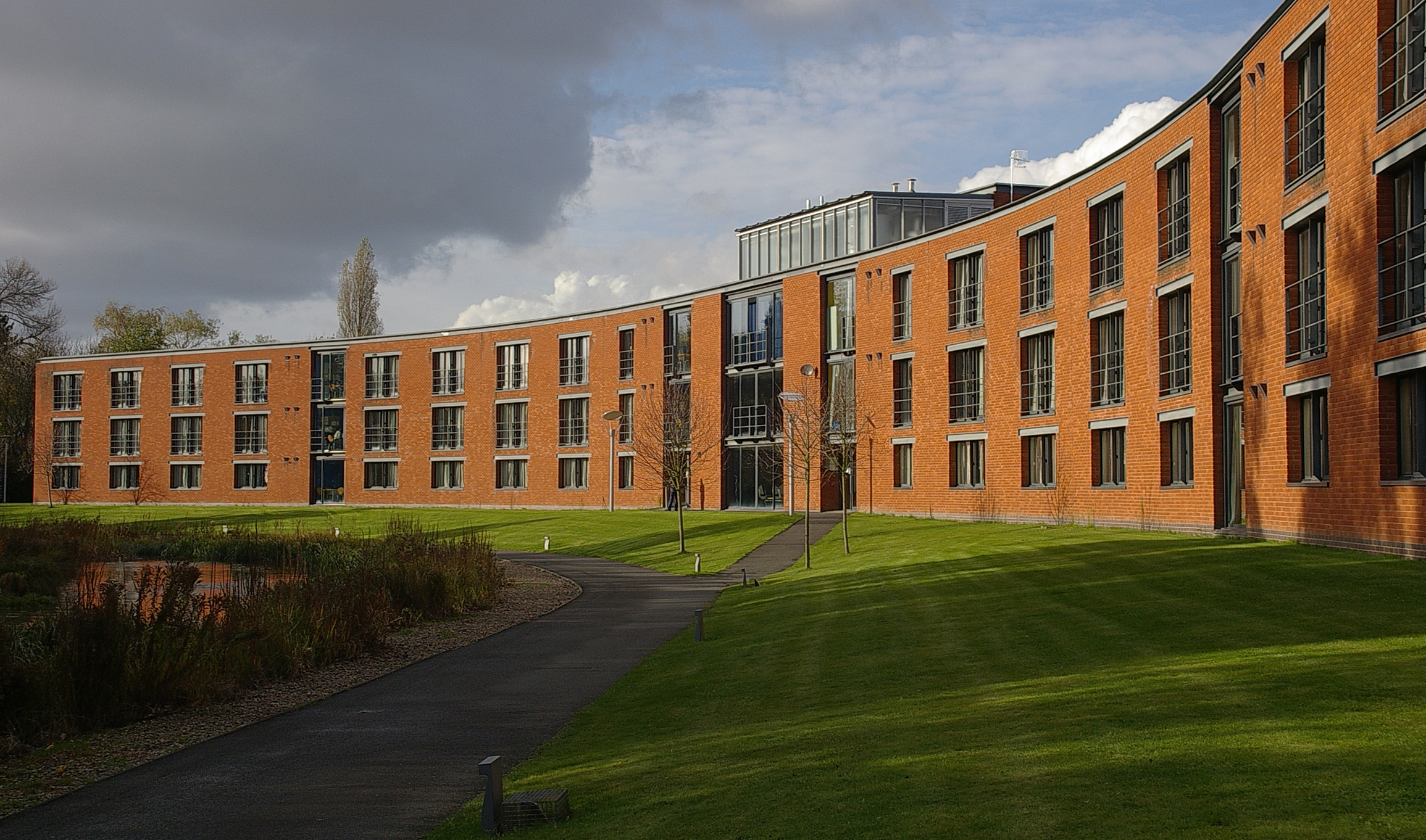 Melton Hall in some autumnal sunshine.